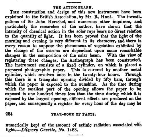 from 1846 The Year-book of Facts in Science and Art By John Timbs, London: Simpkin, Marshall, and Co. [1]